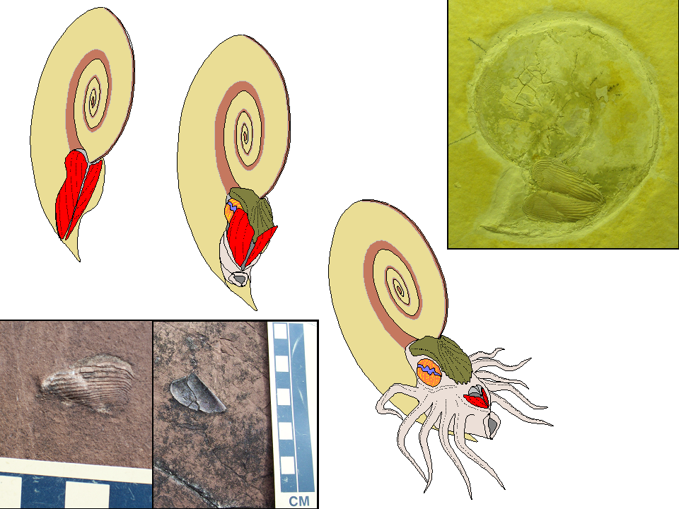 Some examples of aptychi (right: oppeliid ammonite from Late Jurassic of Solnhofen, Germany; left: aptychi (recto and versus) from Late Jurassic of Lombardy, Italy), and conceptual scheme of their function.